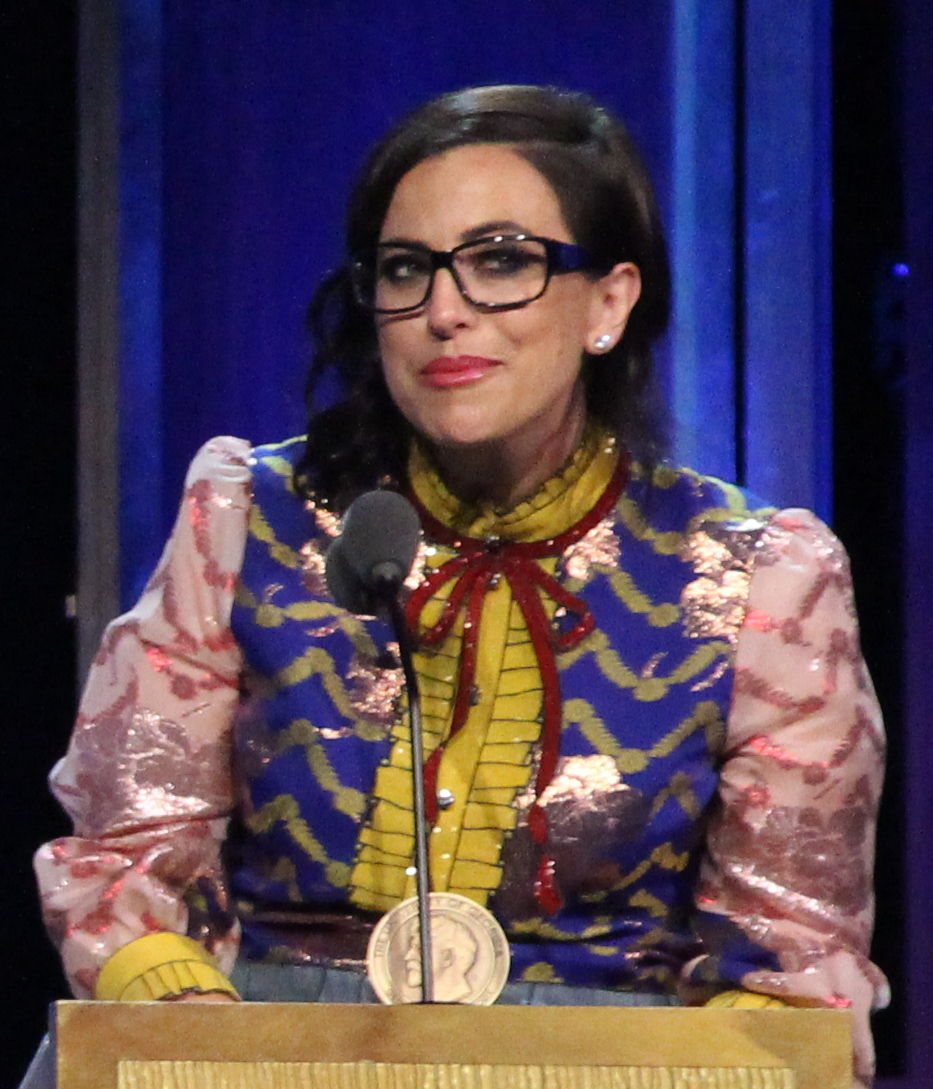 This photo includes Co-Creator Sarah Gertrude Shapiro from Lifetime's "UnREAL." (Photo/Sarah E. Freeman/Grady College, in New York City, Georgia, on Saturday, May 21, 2016)